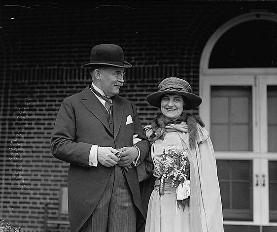 Benjamin Lewis Fairchild (1863 - 1946), U.S. Representative from New York, with his wife